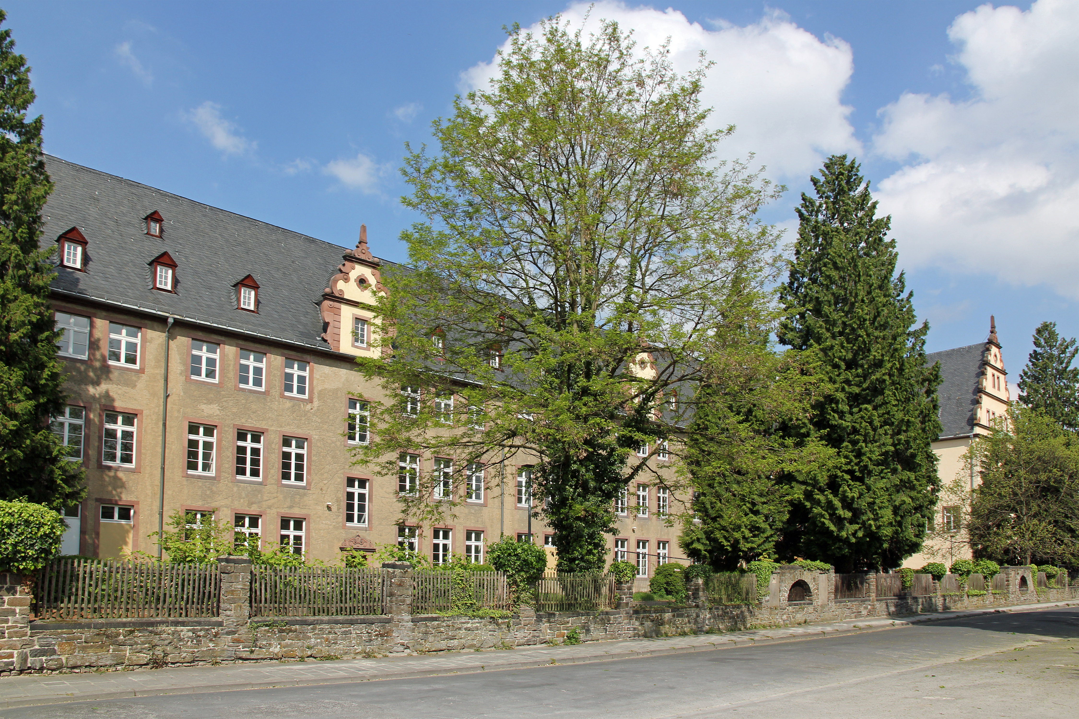 Former prussian teachers seminar in Koblenz